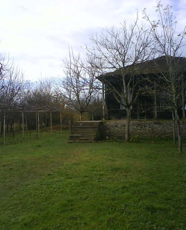 Jikhishi. The house were the movie imeruli eskiZebi filmed